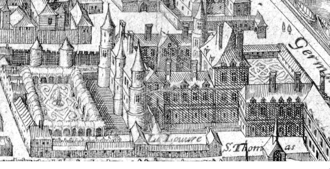 The castle of the Louvre on the Merian map of Paris in 1615. Looking to east. On the left and in the background, the walls of the north and of the east which are yet the walls of the medieval castle. In the foreground and on the right, the walls of the west and the south which are palaces in Renaissance style.